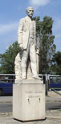 Statue – Károly Antal: Kálmán Kandó, engineer. Miskolc, Hungary